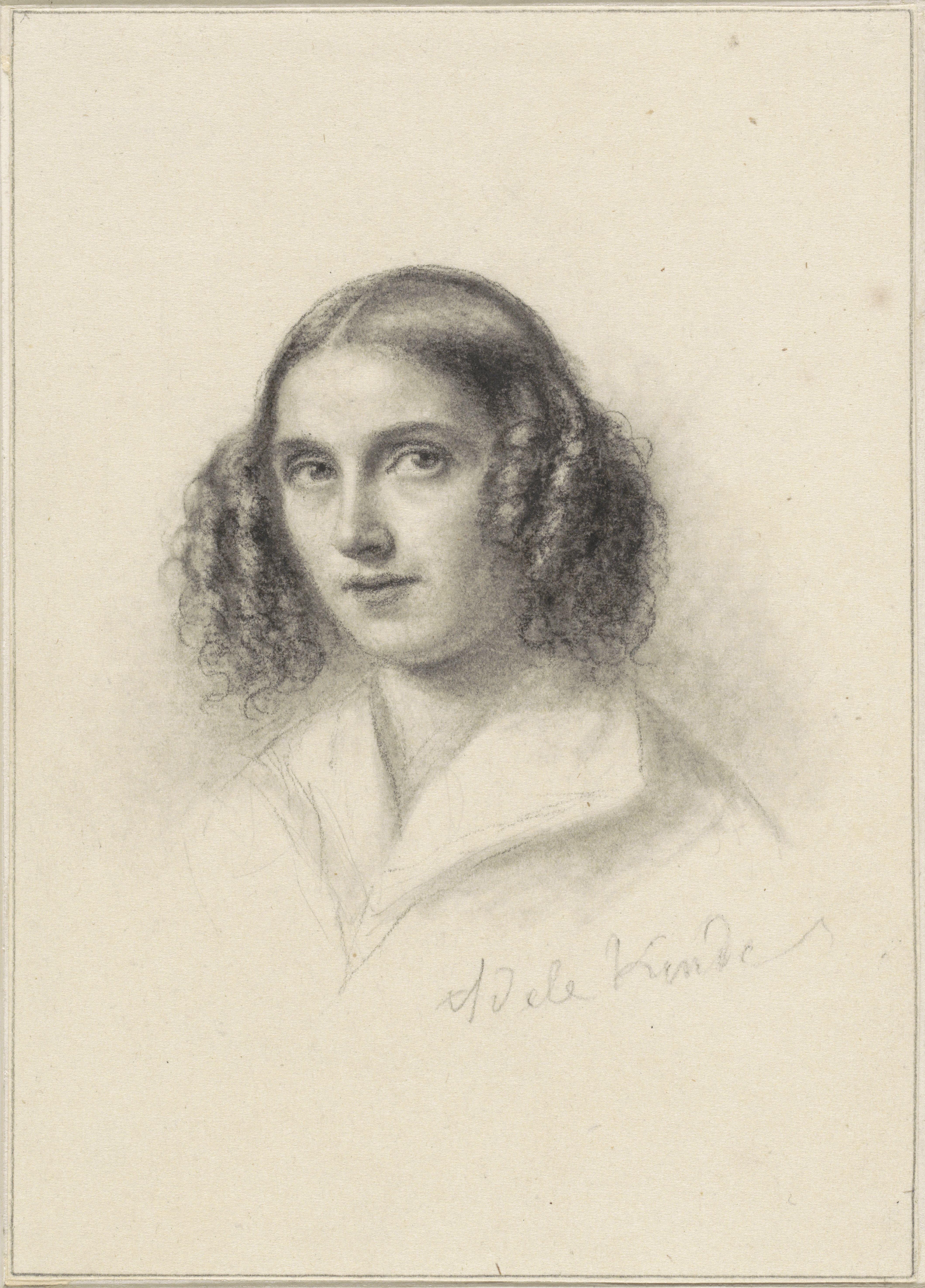 Adèle Kindt, selfportrait